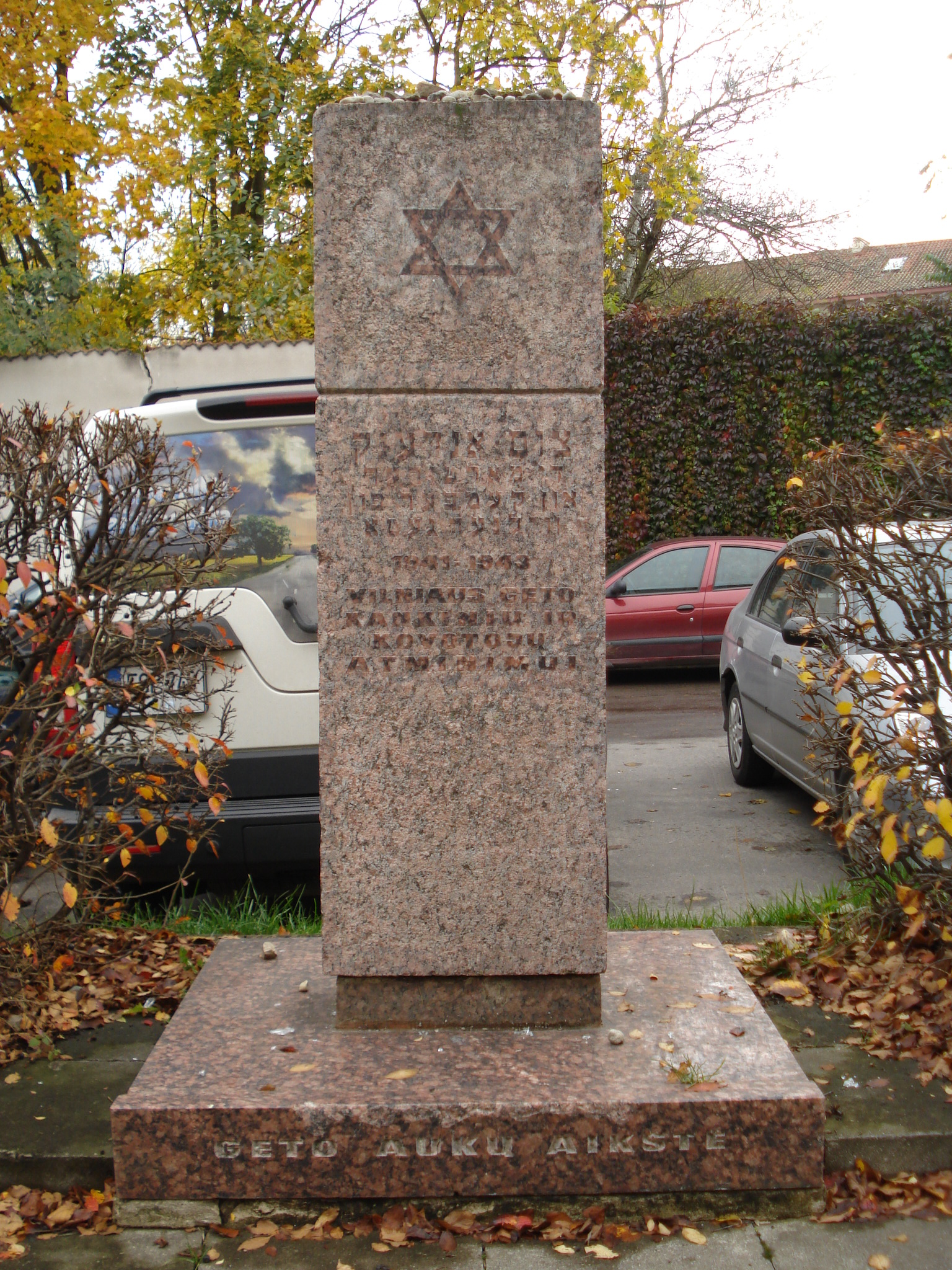 Monument in memory of martyrers and heroes of Vilna ghetto. Mėsinių street